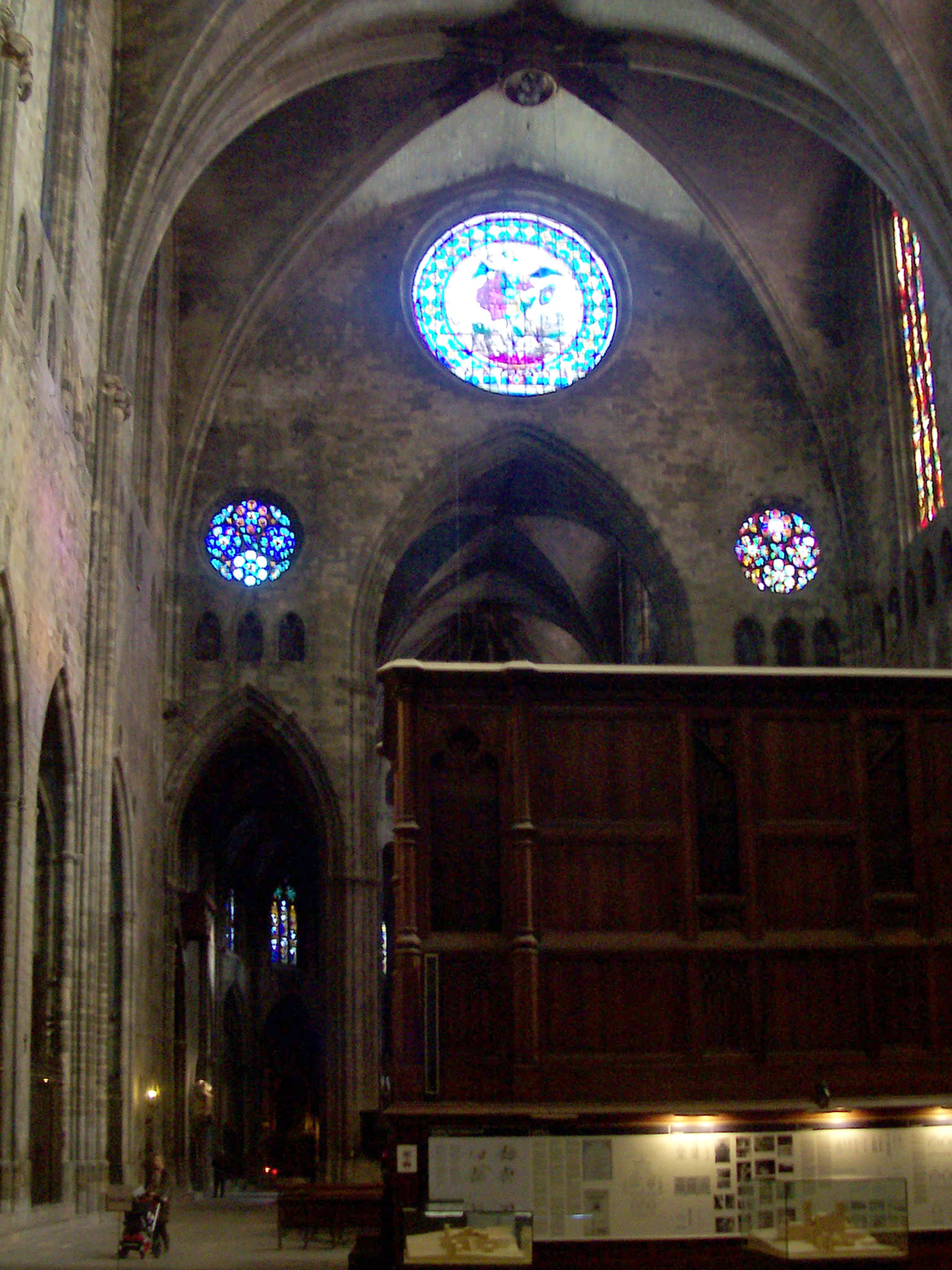 Inside of the central plant of the Cathedral of Girona